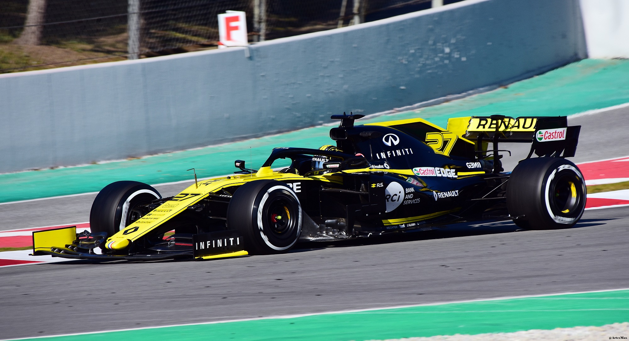 2019 Formula One tests Barcelona, Hülkenberg.